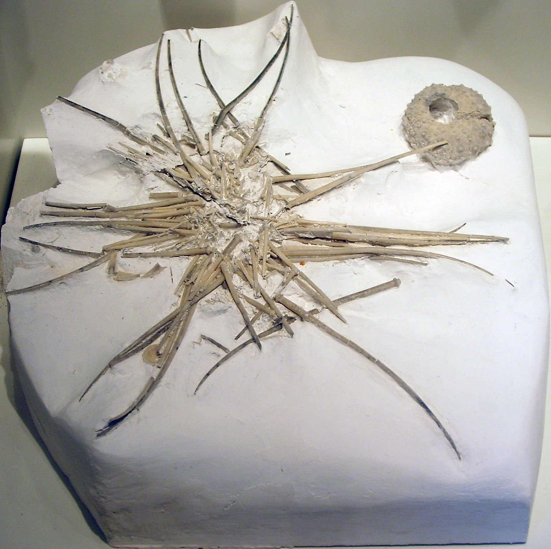 Phymosoma granulosum fossil (Danekræ specimen DK 154), Geological museum, Copenhagen.